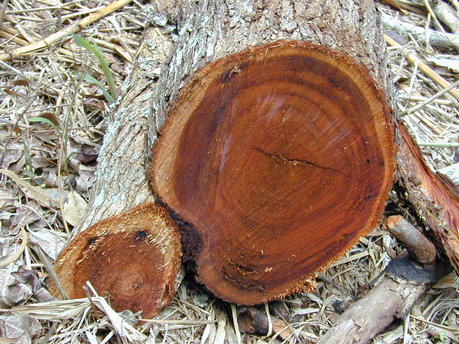 Acacia koa (wood). Location: Maui, Makawao Forest Reserve